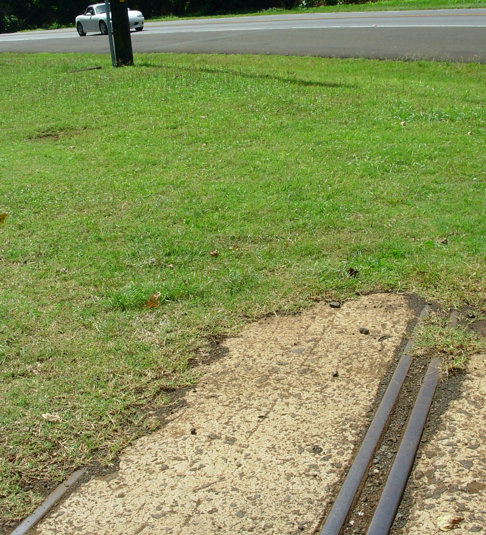 At the entrance to Grove Farm Museum, remnants of the narrow gauge rail system.